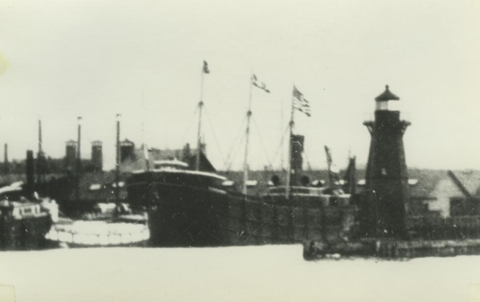 The steamer Cambria in 1888